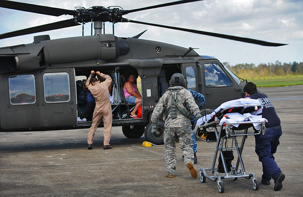 Louisiana National Guardsman Staff Sgt. Gary Cheek, 1st Assault Battalion, 244th Aviation Regiment, Naval Branch Clinic, Belle Chasse personnel and Plaquemines Parish Emergency Management Services personnel and members of the Louisiana Army National Guard's 2nd Battalion, 135th Aviation Regiment bring a gurney to a UH-60 Black Hawk with the LANG's 2-135th General Support Aviation Battalion to transfer civilians that were medically evacuated from Port Sulphur, La., to Naval Air Station, Joint Reserve Base, New Orleans, Sept. 1, 2012. The LANG has more than 6,000 soldiers and airmen on duty supporting our citizens, local and state authorities by conducting Hurricane Isaac emergency operations.